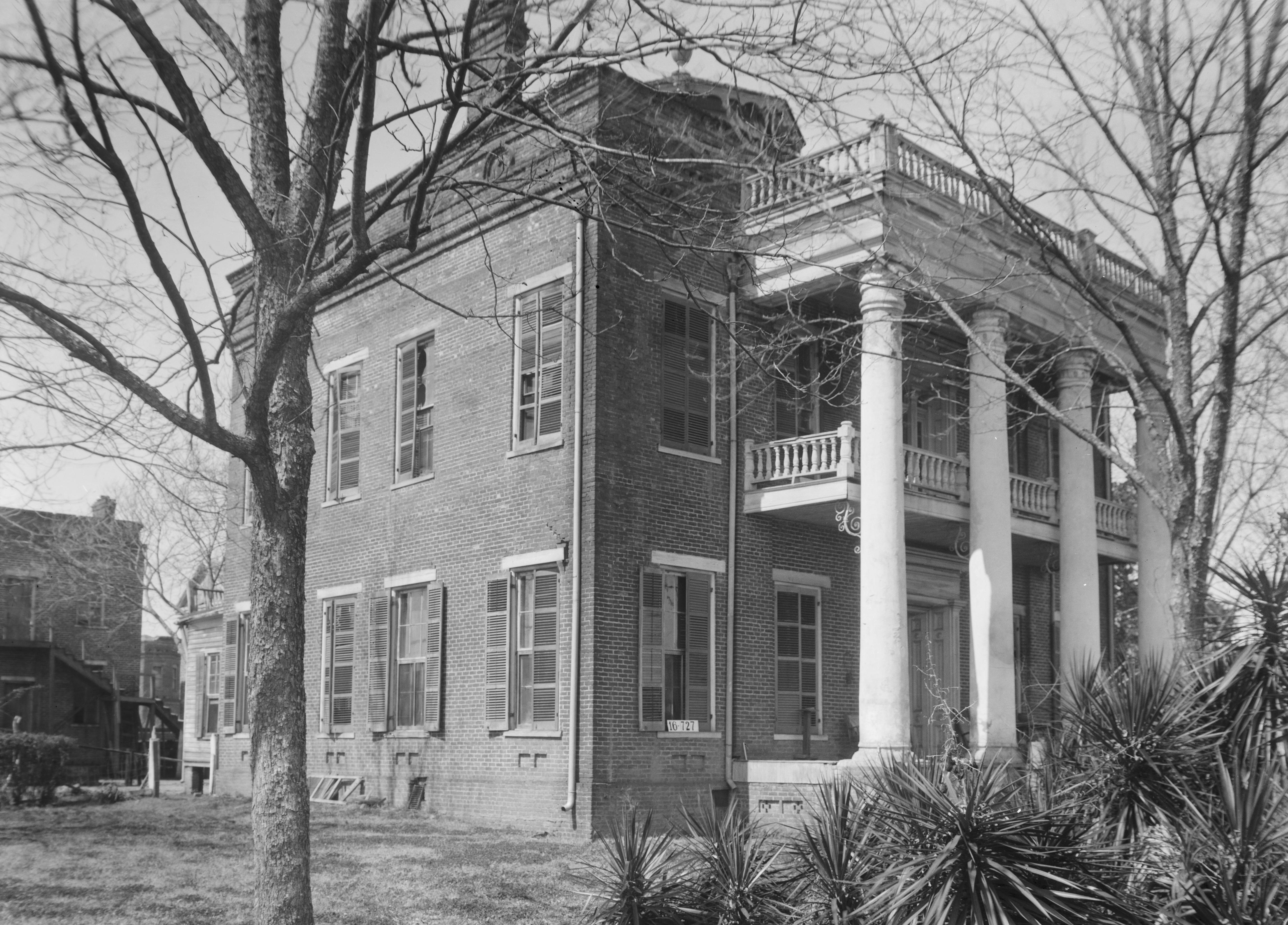 Kirkpatrick House, Oak Street, Cahaba, Dallas County, AL FRONT VIEW. (The house burned in 1935.)